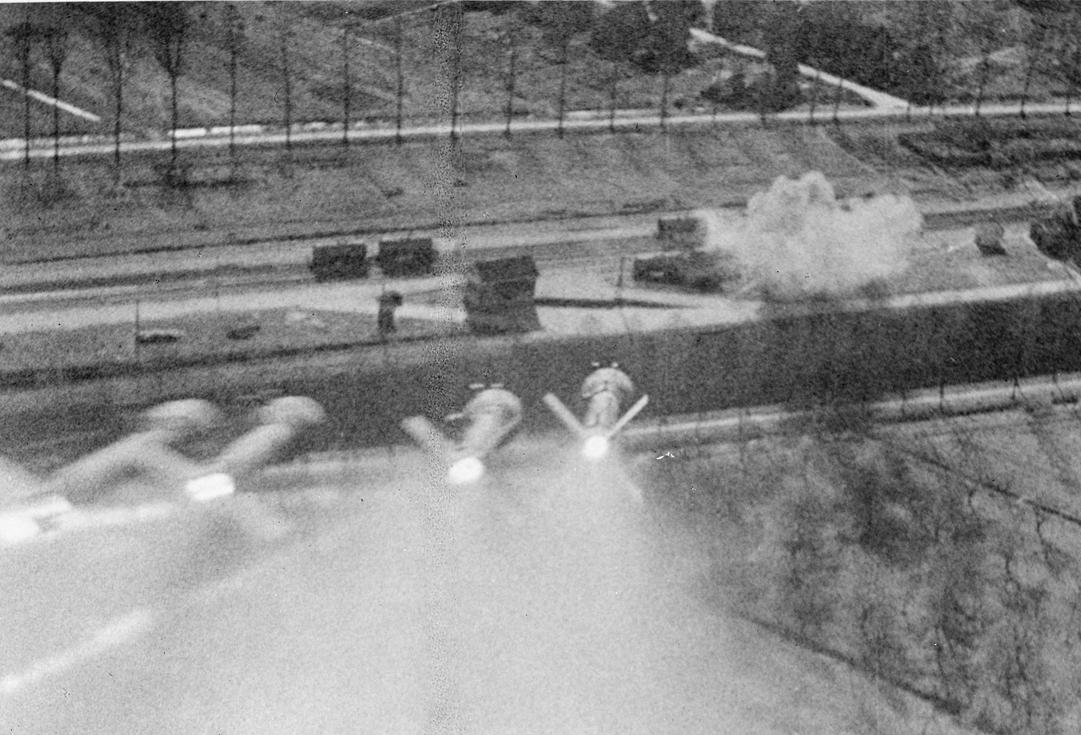 2ND TACTICAL AIR FORCE, 1943-1945. Still from film shot by a Hawker Typhoon of No. 181 Squadron RAF while attacking trucks in railways sidings at Nordhorn, Germany, showing a salvo of 60-lb rocket projectiles heading for the target, which has already been hit.